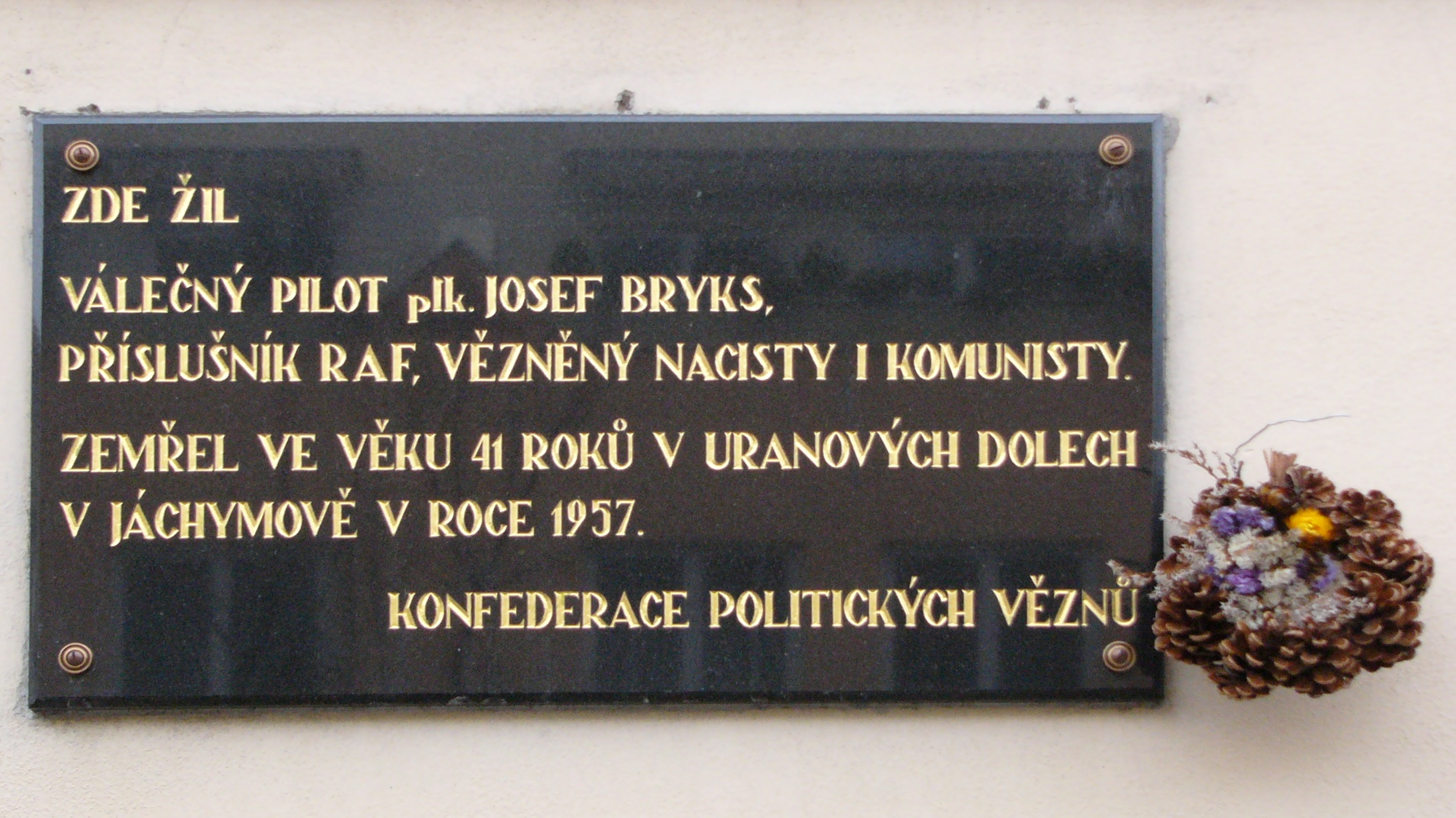 Memorial plaque devoted to Josef Bryks in 15 Hanáckého pluku street in Olomouc, the Czech Republic. There is written in the Czech language: Here lived war pilot colonel Josef Bryks, a member of RAF. He was prisoned by Nazis and by communists. He died in the age of 41 in the uranium mines in Jáchymov in 1957. Confederacy of Political Prisoners.